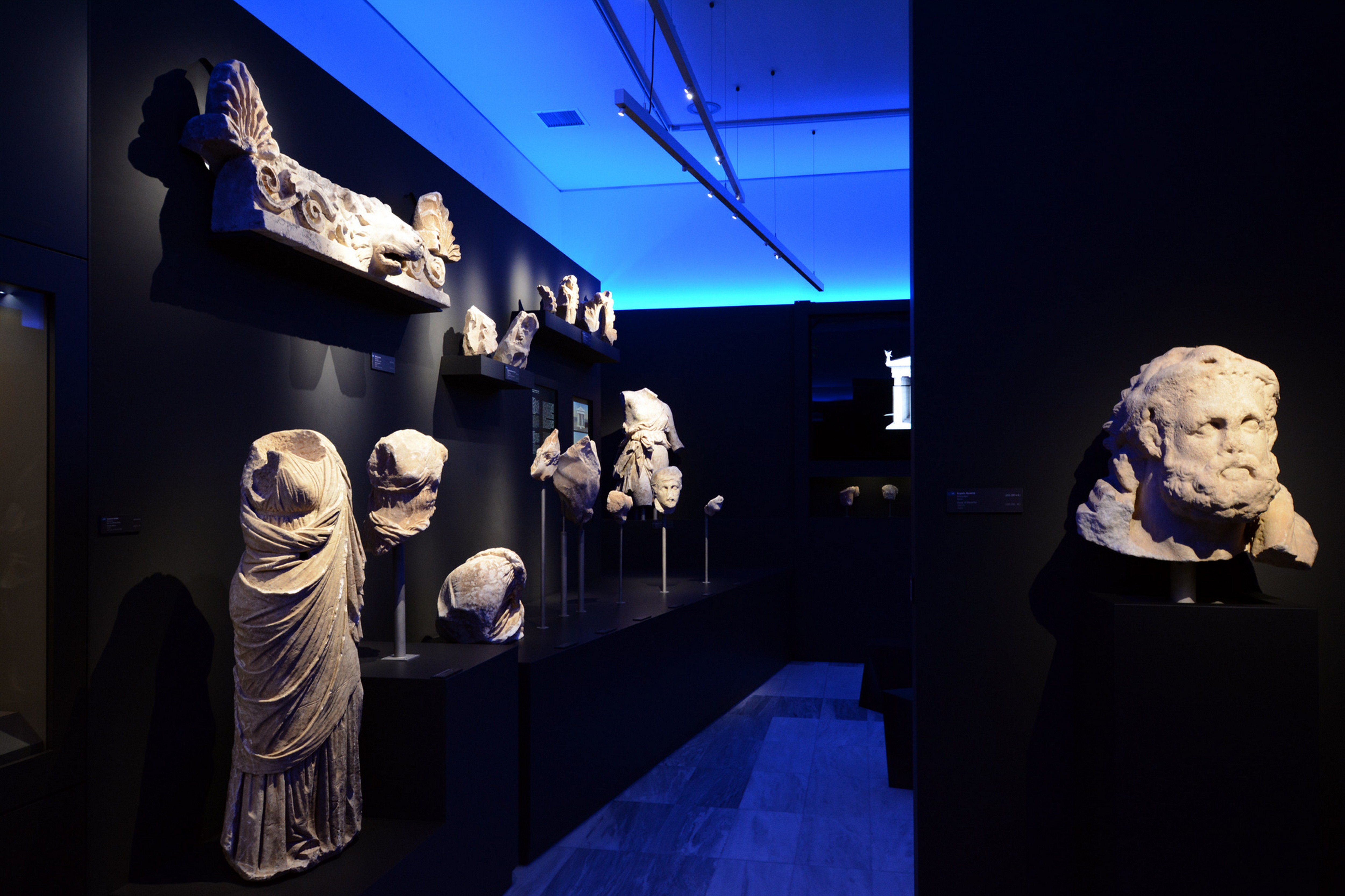 Archeological Museum of Alea, Tegea